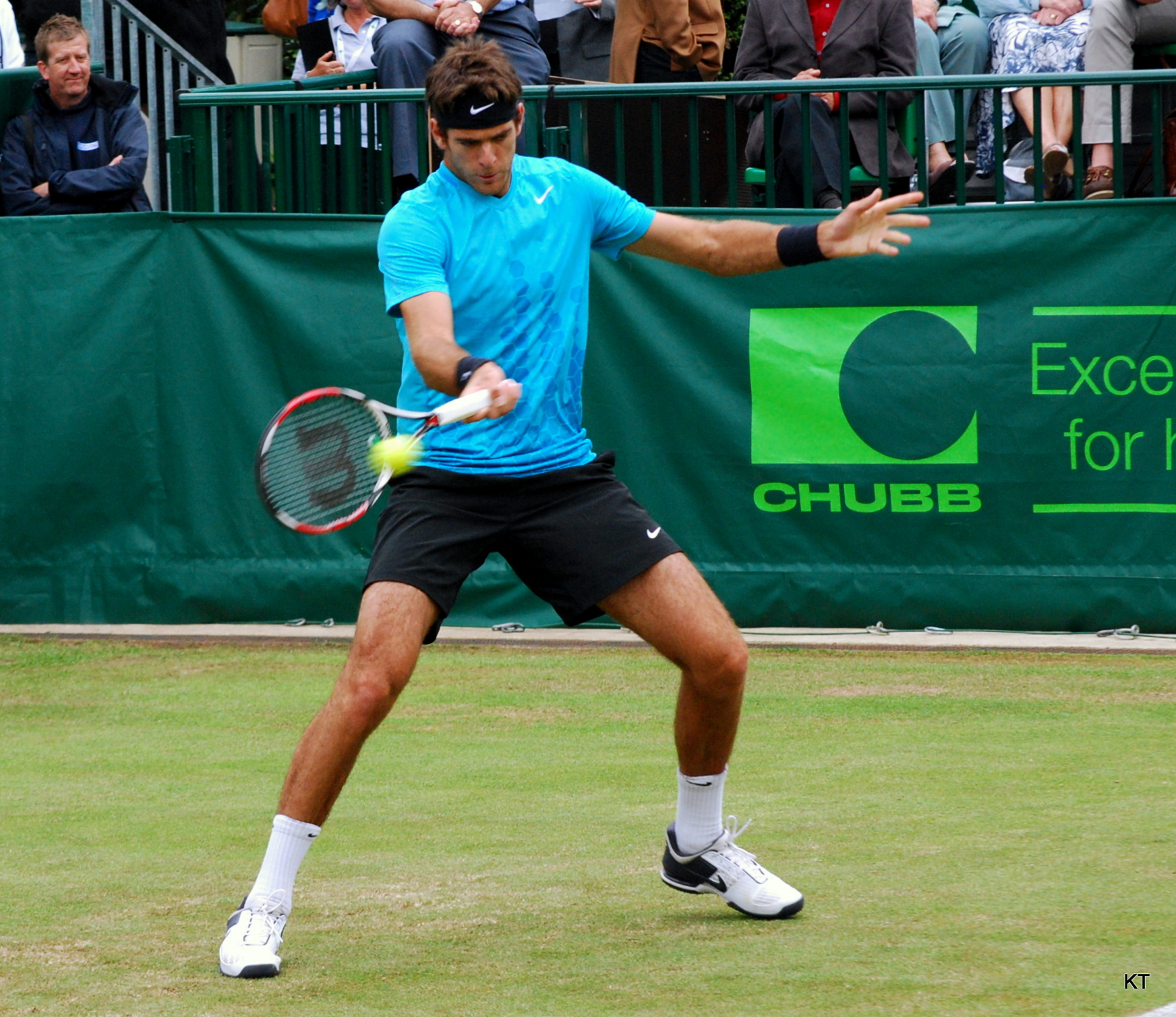 The Boodles, Stoke Park 2011.